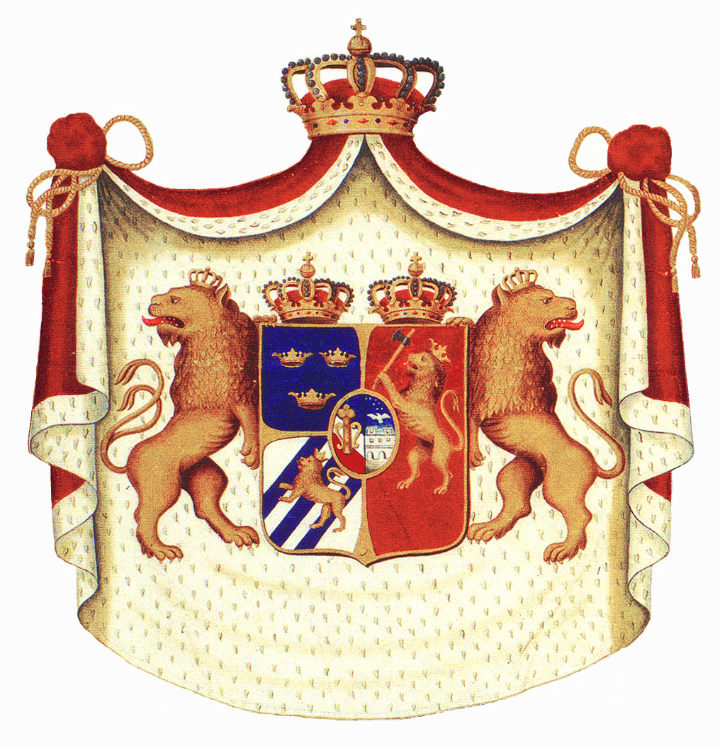 Union and royal arms of Sweden and Norway 1844-1905 as used on royal standards